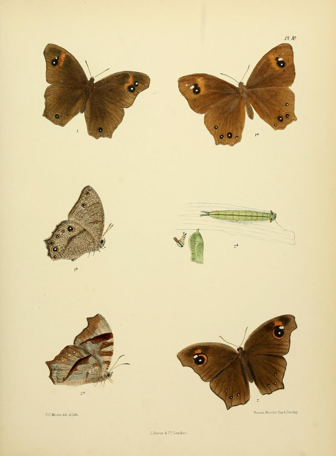 Frederic Moore The Lepidoptera of Ceylon Plate 10 Fig. 1, 1 a, b. Melanitis Leda = Melanitis leda (Linnaeus, 1758) Fig.2, 2 a, b. Melanitis Ismene = Melanitis leda ismene (Cramer, [1775])